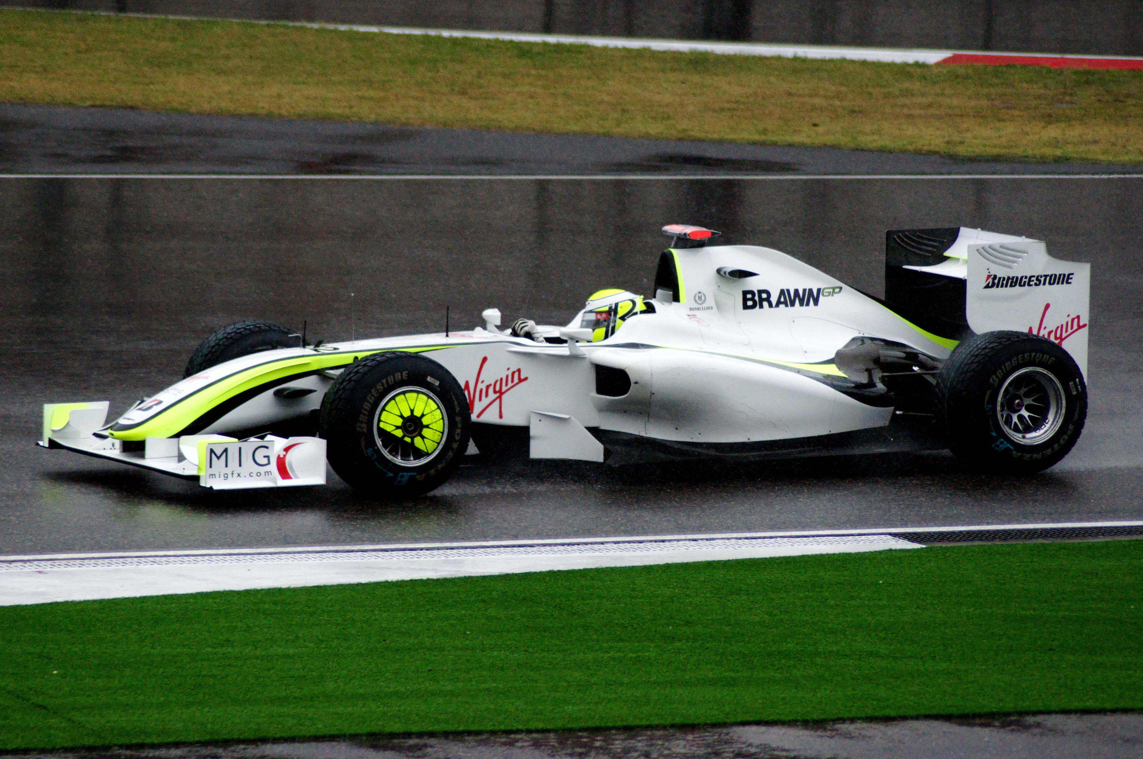 Jenson Button driving for Brawn GP at the 2009 Chinese Grand Prix.